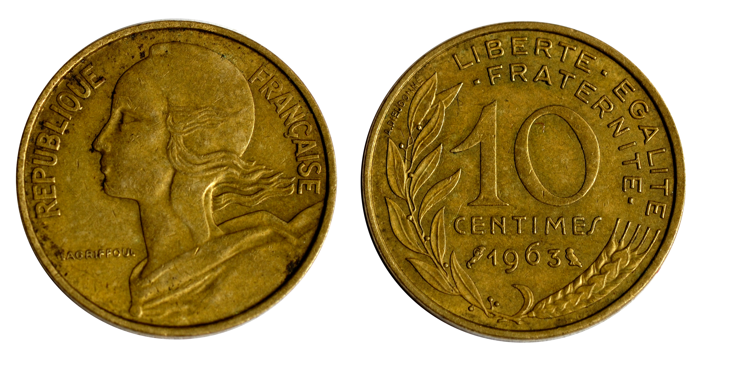 France, 10 centimes, 1963.